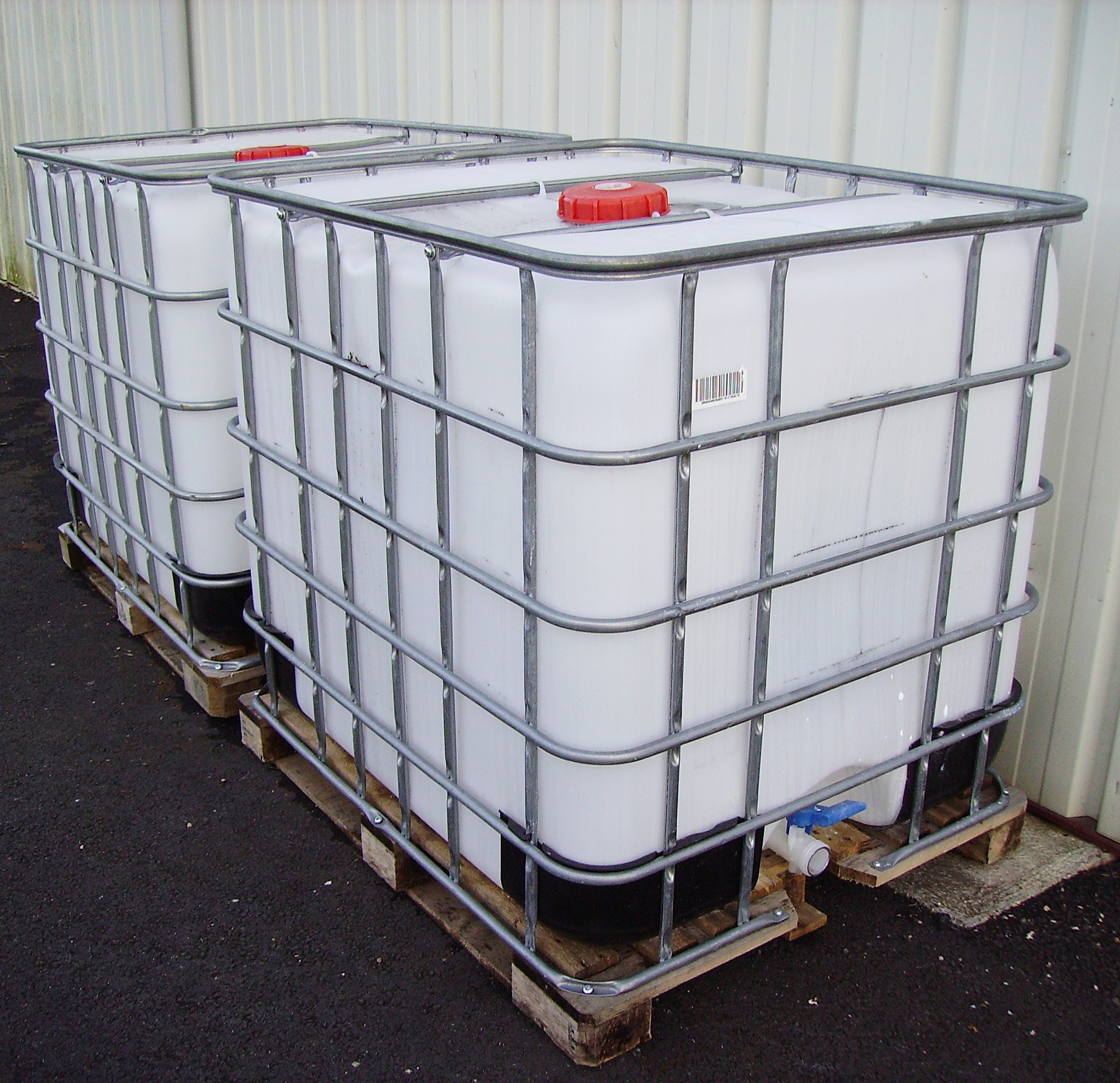 Intermediate bulk containers. "Attention! Remove security screw before opening valve!"